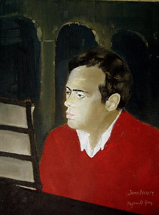 John Beckett, painting on canvas by Reginald Gray.